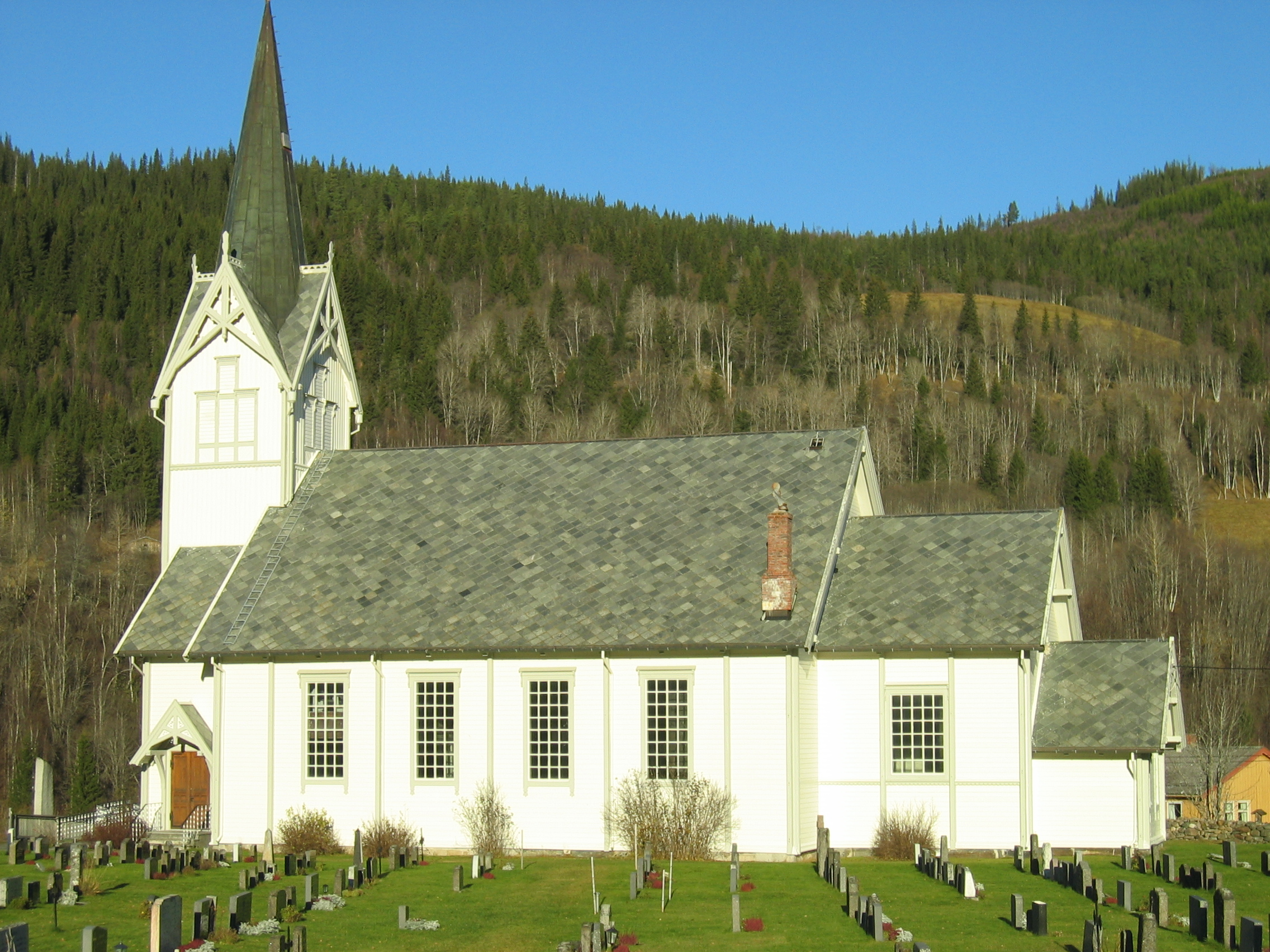 Singsås Church, Midtre Gauldal, Sør-Trøndelag, Norway. Norwegian: Singsås kyrkje, Midtre Gauldal, Sør-Trøndelag, Noreg.